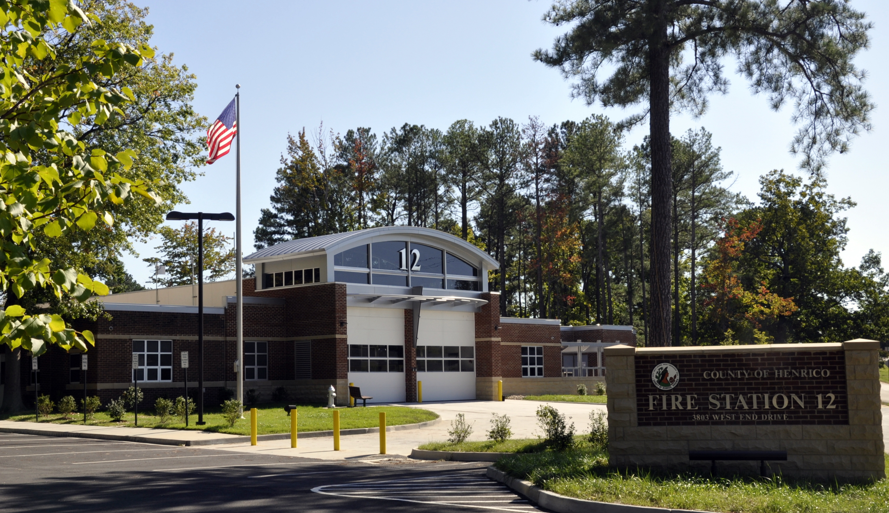 Henrico County Fire Department Firehouse 12